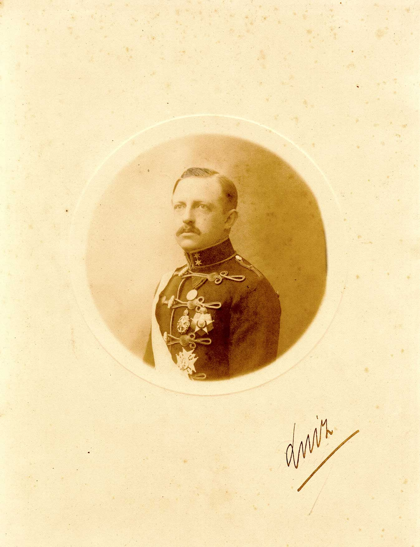 Louis, Prince Imperial of Brazil, 1909.